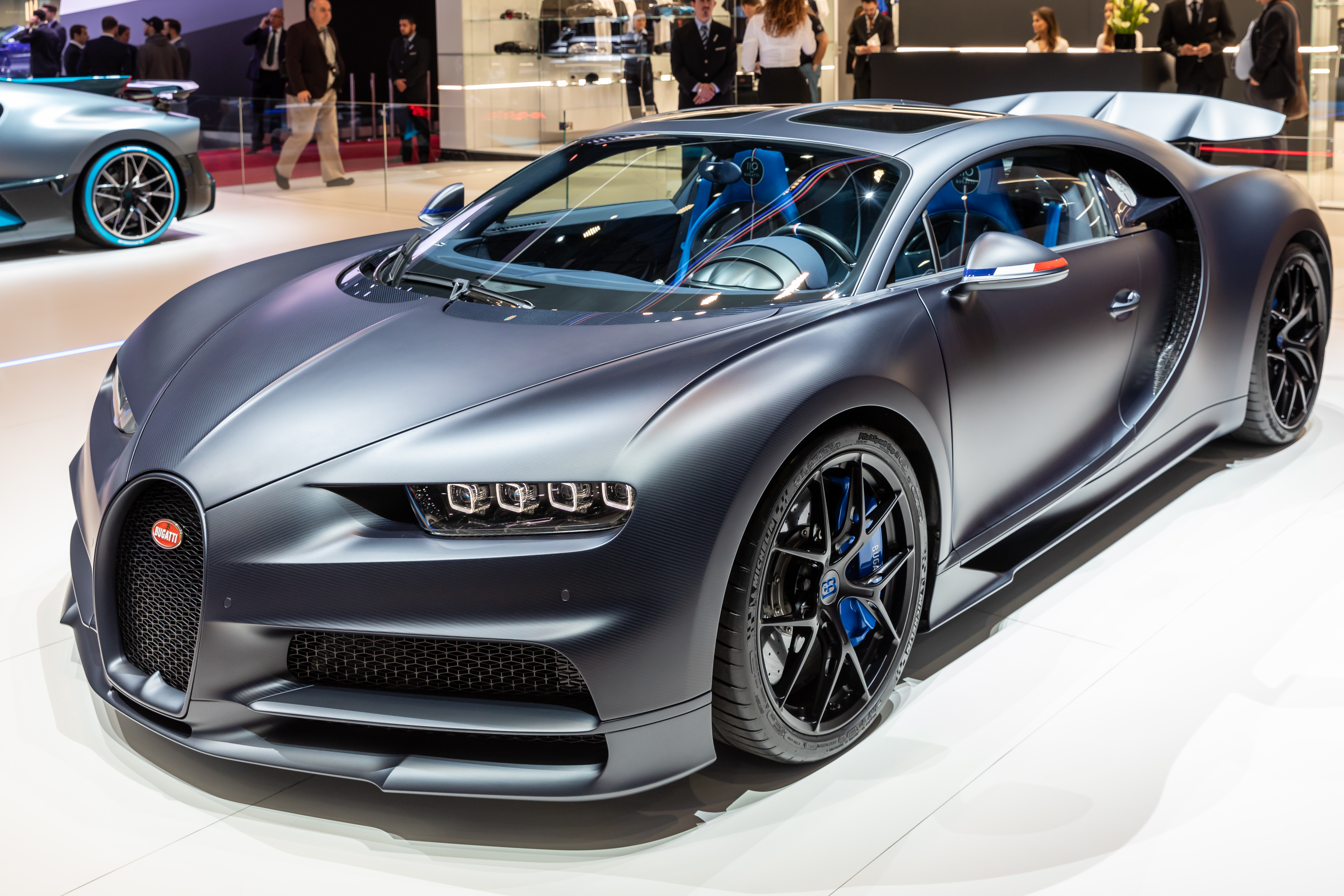 Geneva International Motor Show 2019, Le Grand-Saconnex